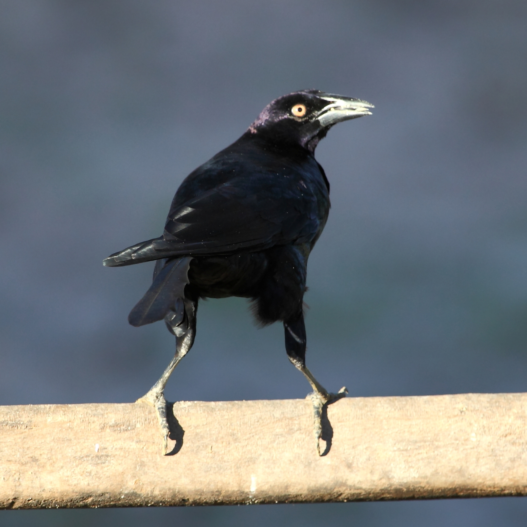 Giant Cowbird at North Pantanal, Poconé - MT - Brazil